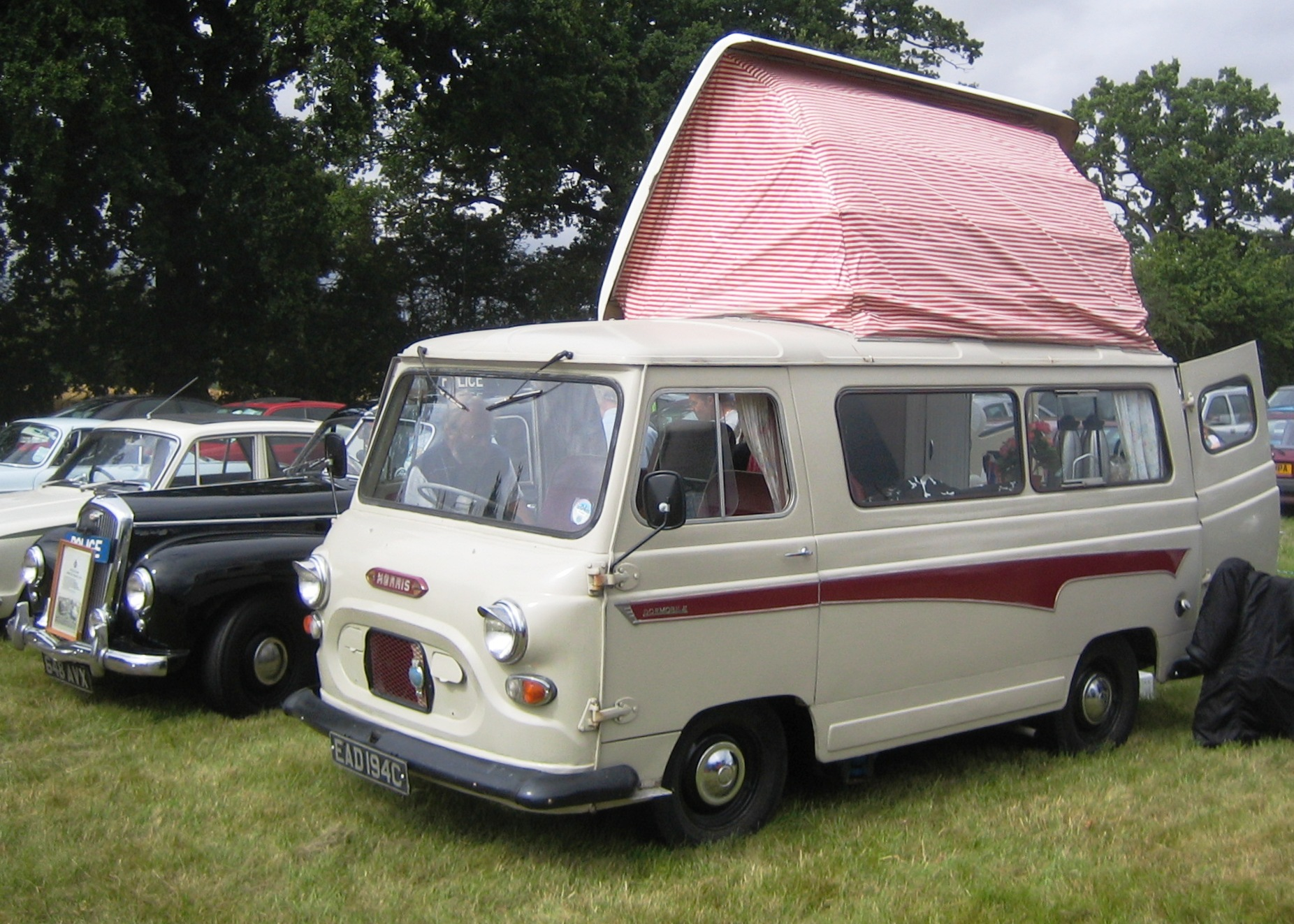 The first Dormobiles are generally associated with the front engined Bedford CA van, but conversions were also offered on competitor vehicles with more intrusive mid-engines such as the Morris J4 restored in cornwall!